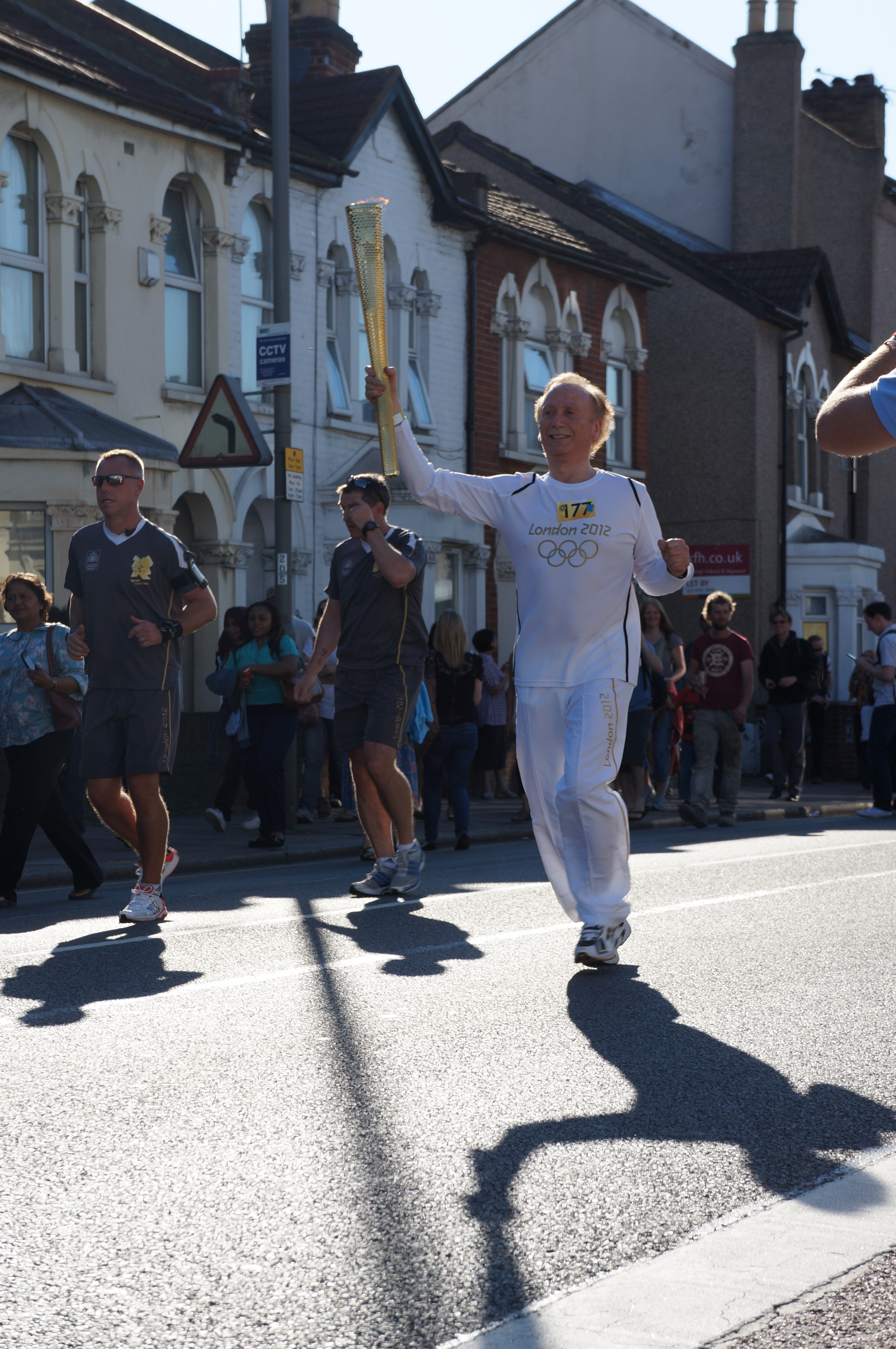 Neville Shulman carrying the Olympic torch in the Borough of Wandsworth in July 2012.